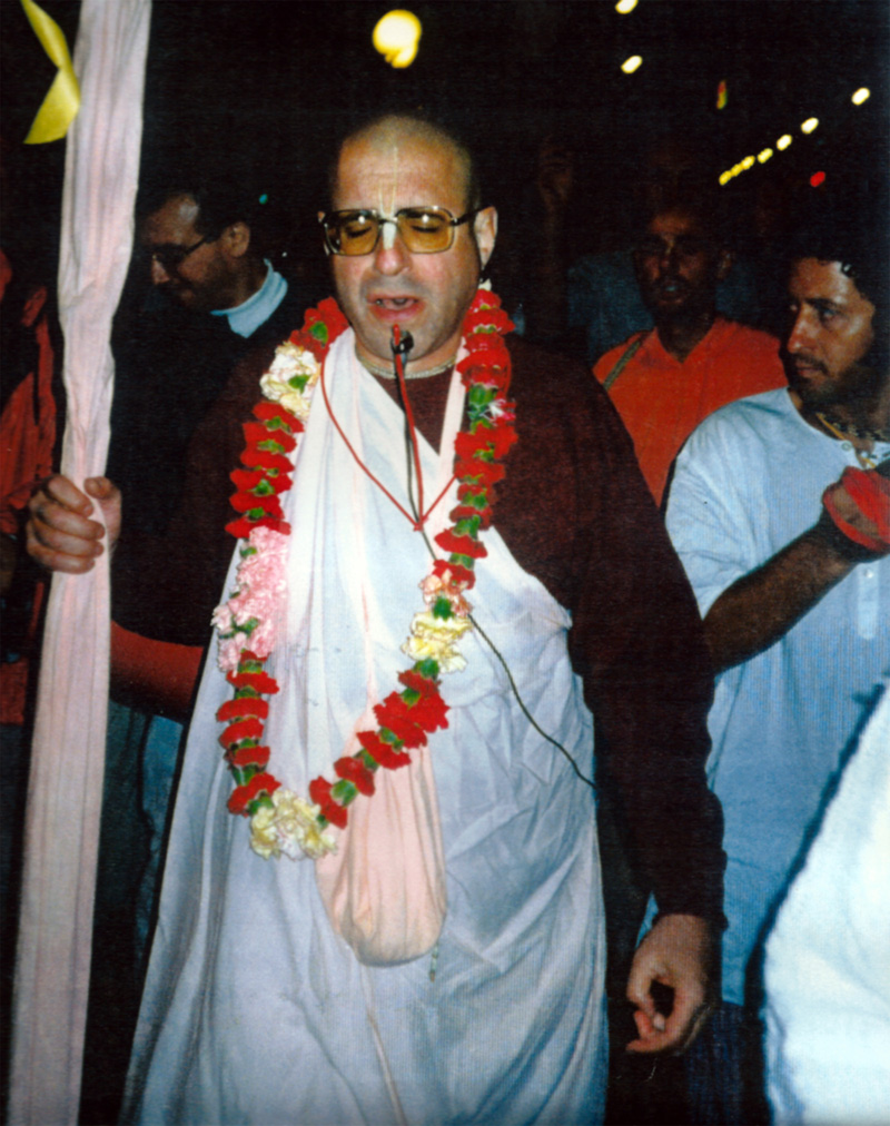 Hare Krishna guru Giriraja Swami singing at Ratha Yatra festival in Madrid, Spain